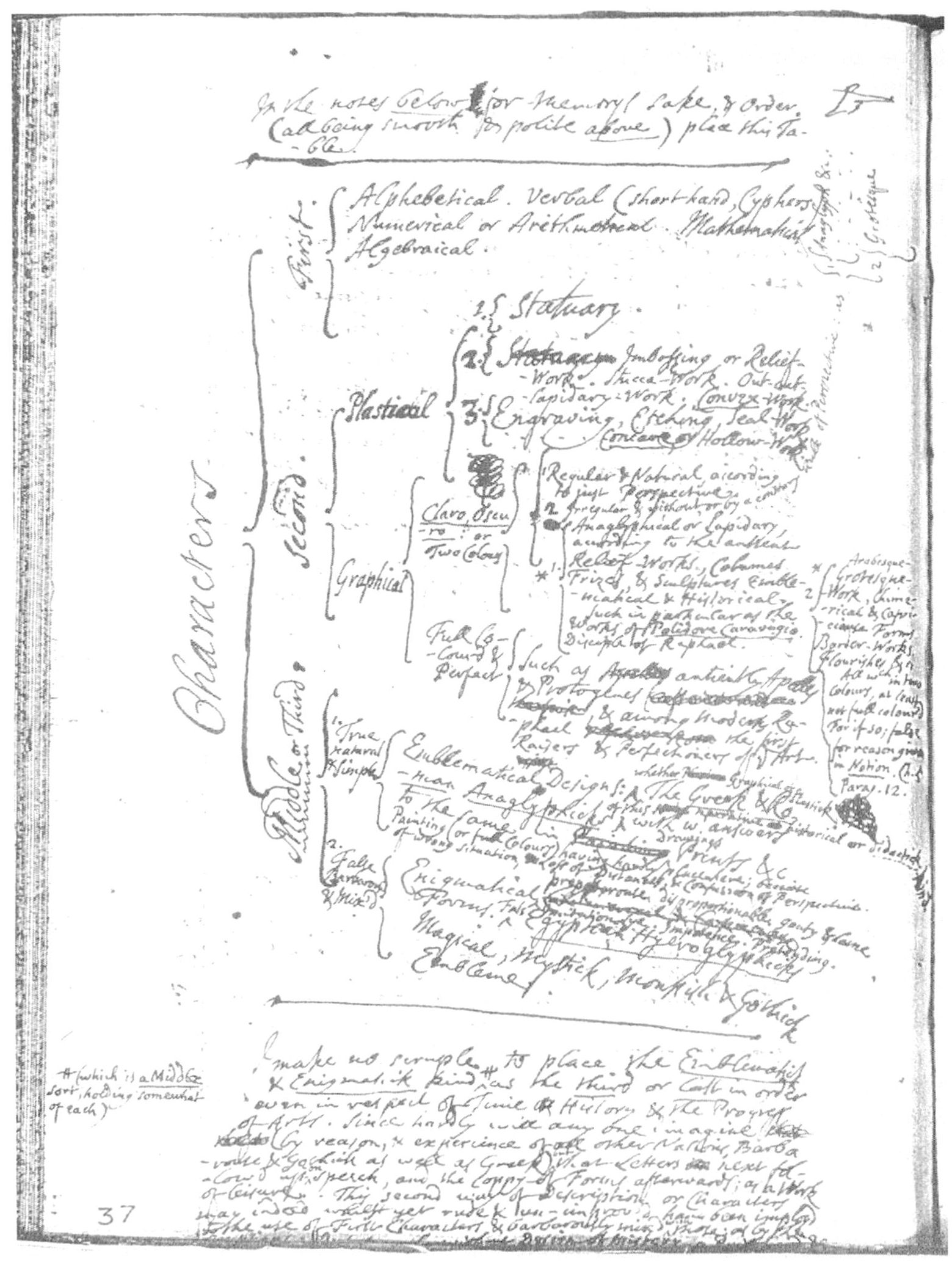 Shaftesbury's diagram of the „characters“ for his intended publication Second Characters on the „Language of Forms“ in the visual arts. London, Public Record Office, PRO 30/24/27/15.